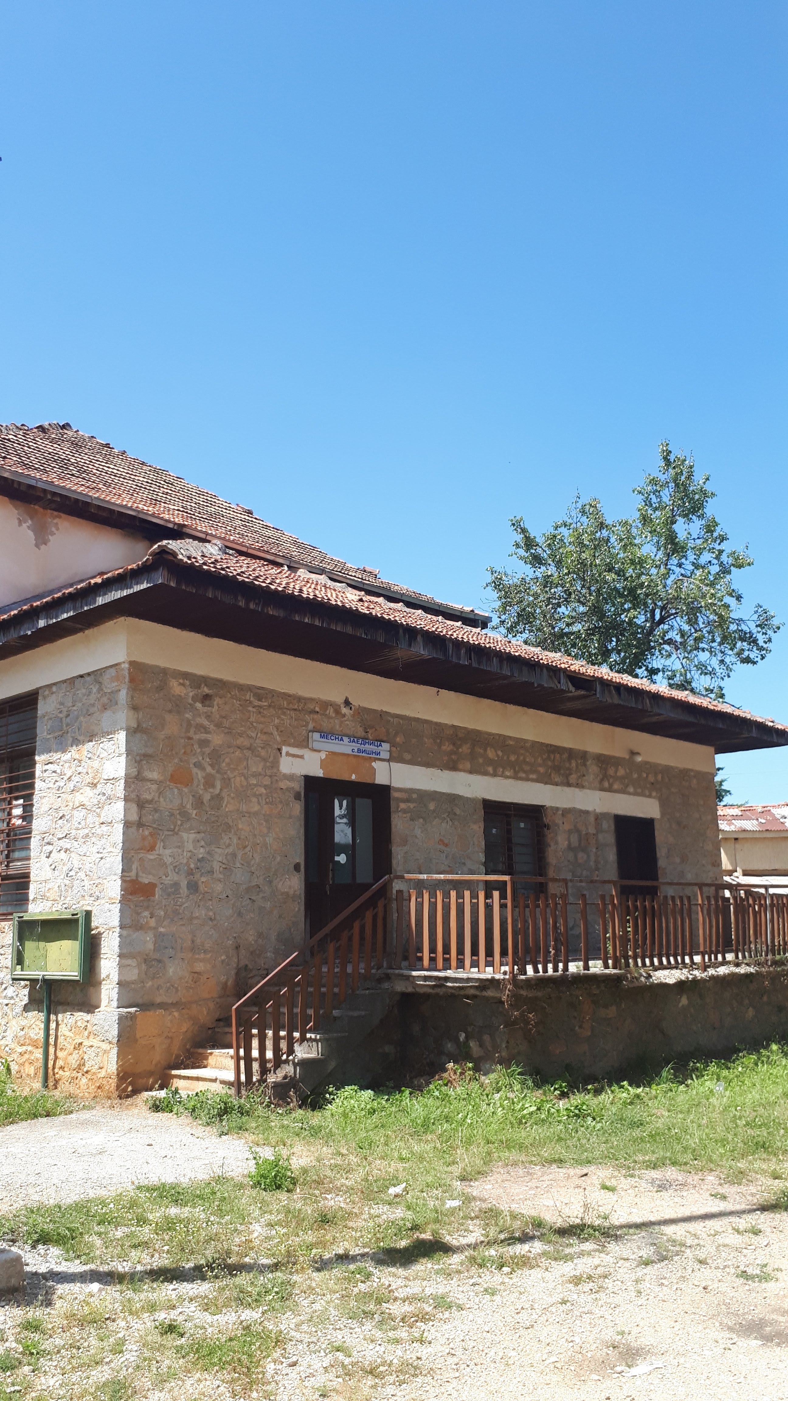 Local office in the village Višni